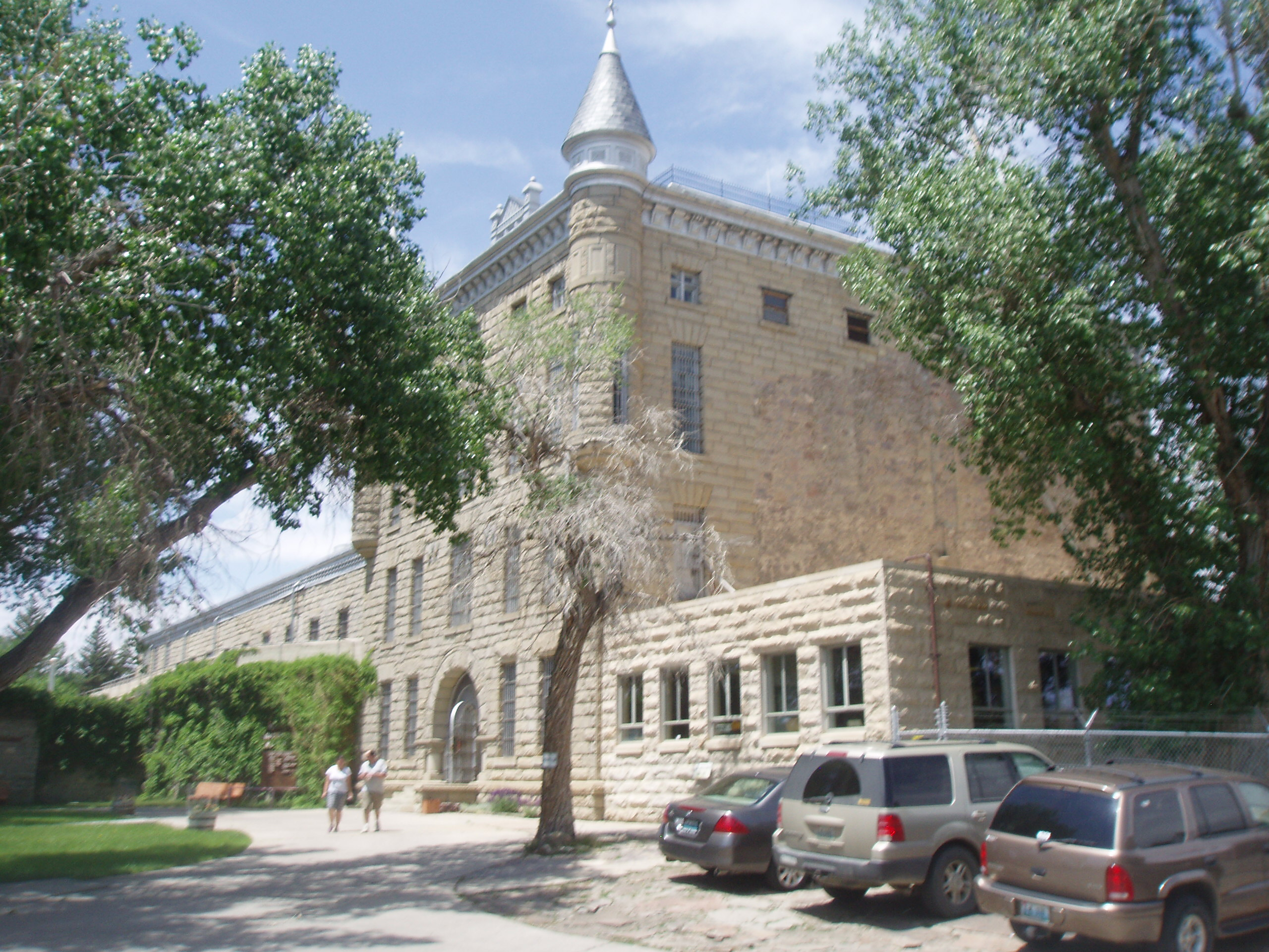 The Wyoming State Penitentiary District, a historic district in Rawlins, Wyoming, United States.